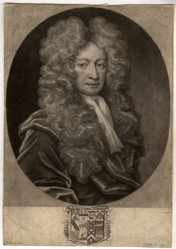 Sir Robert Cotton, 1st Baronet, of Combermere (c1635-1712)